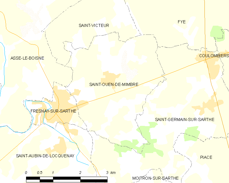 Map of French municipality